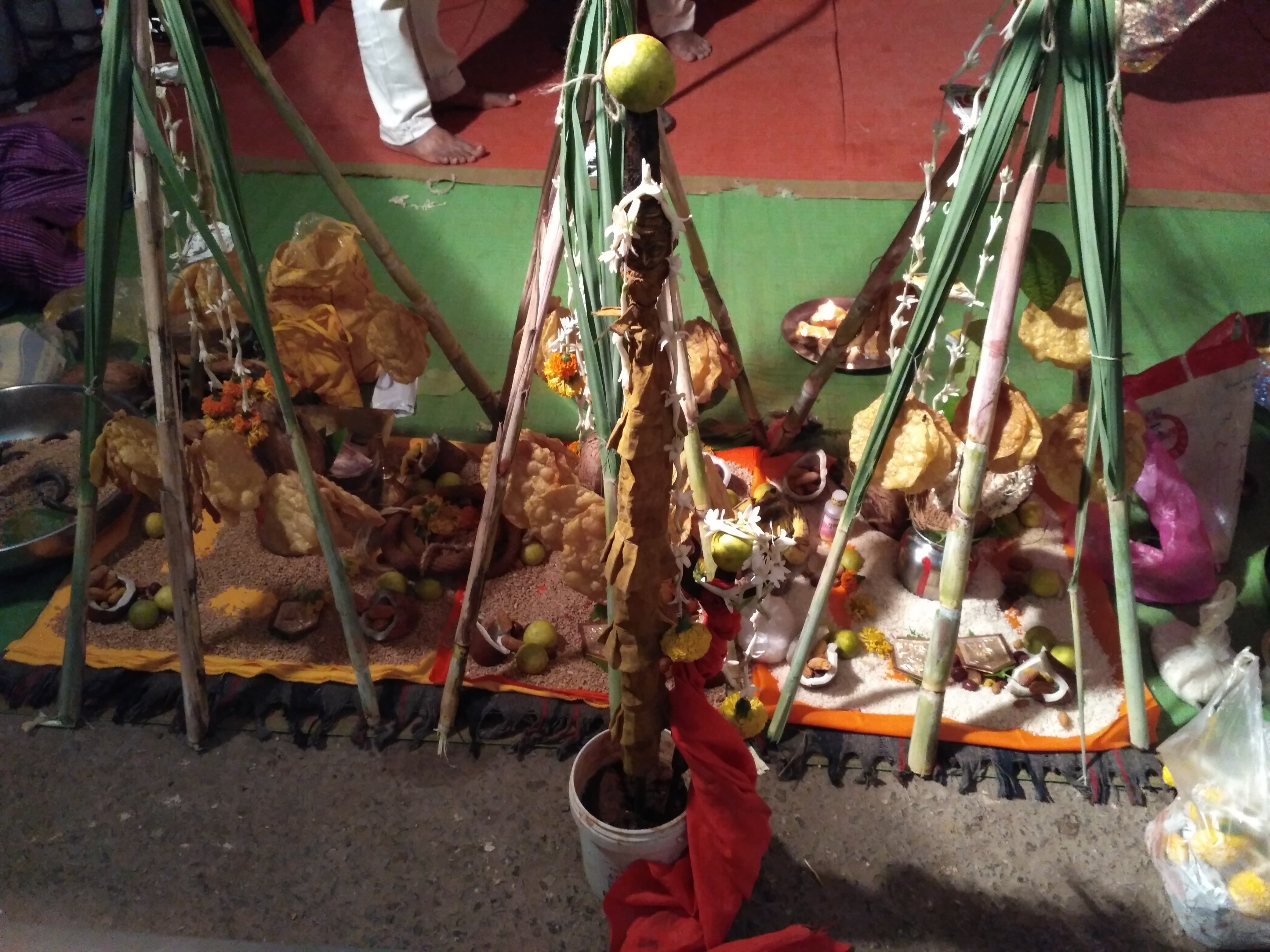 Jagaran gondhal